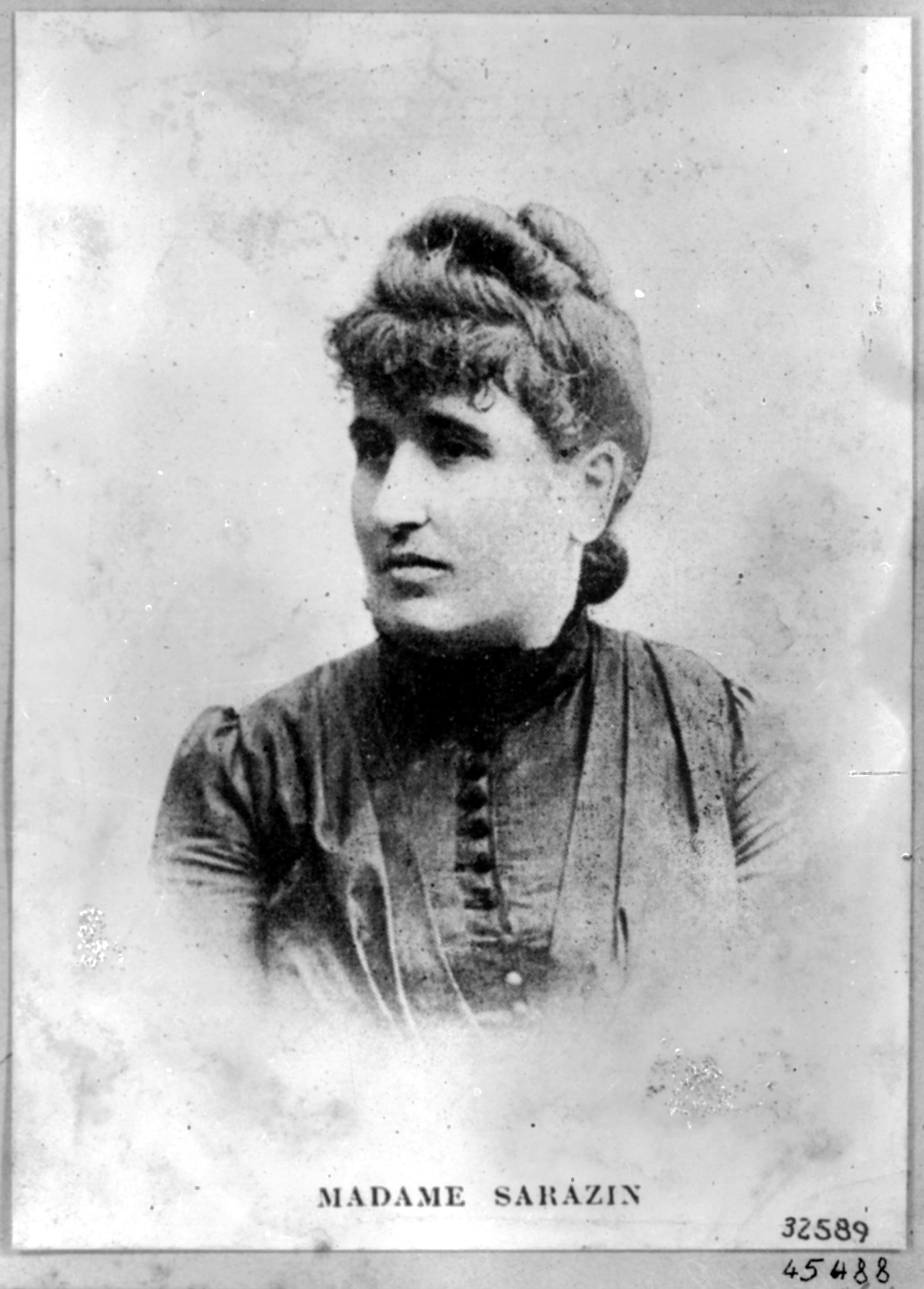 Portrait of French businesswoman Louise Sarazin, née Cayrol (1847–1916), who later married Émile Levassor.